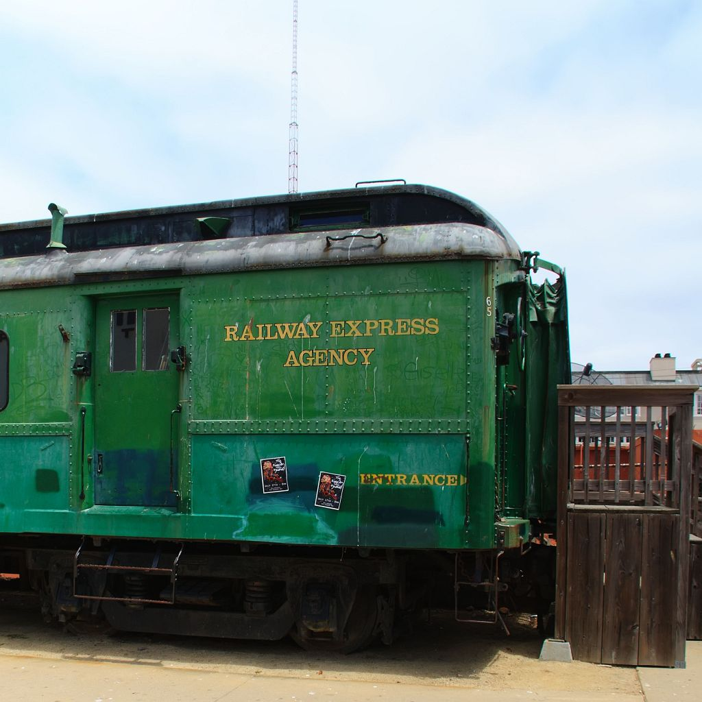 monterey